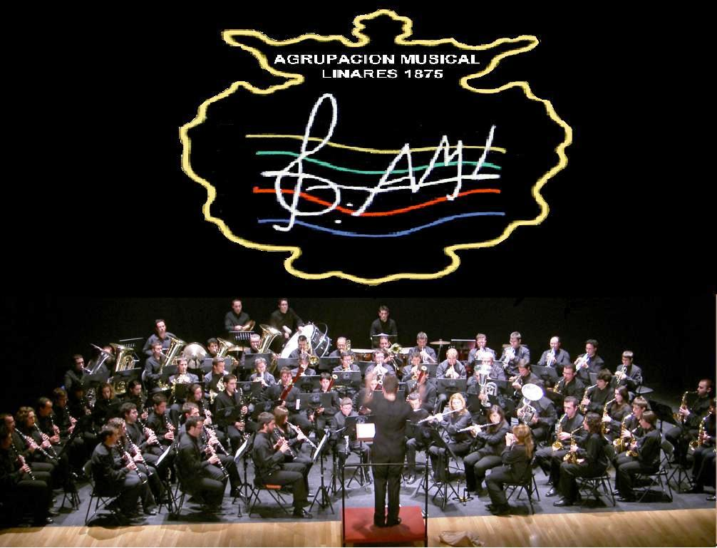 AMLINARES